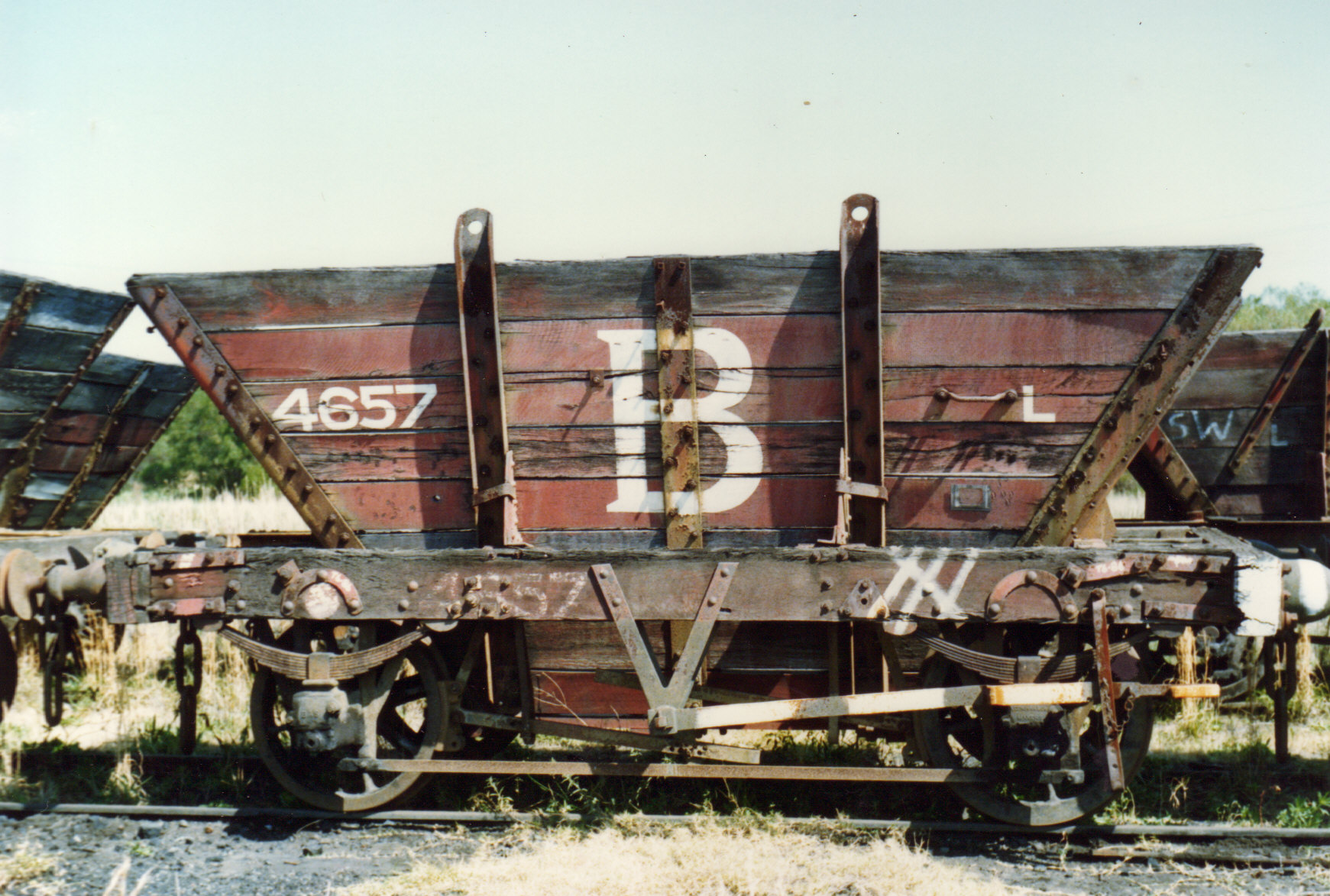 J & A Brown 10 Ton 'non air' coal wagon B4657 at Hexham 1990